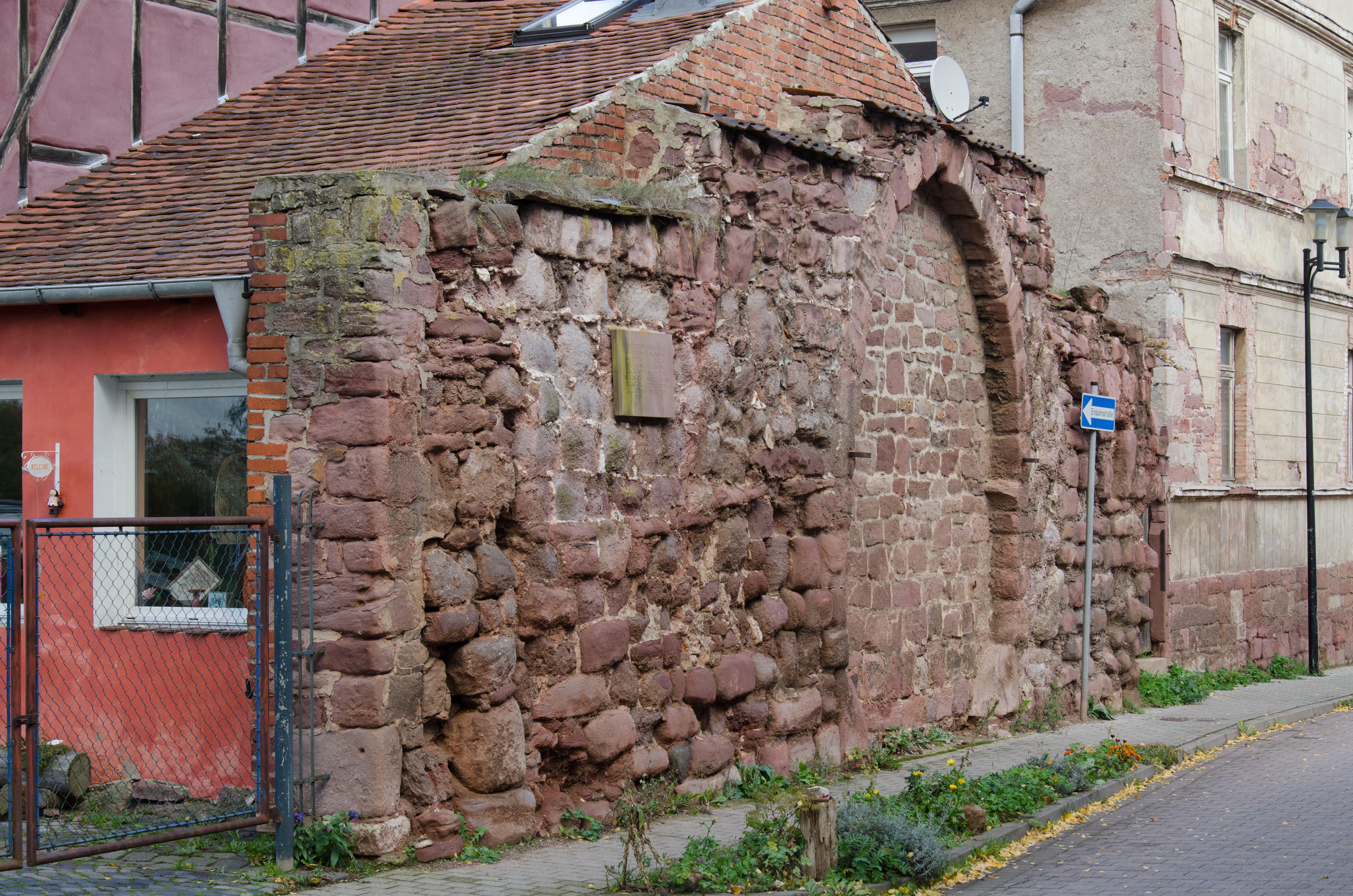 Kelbra, Thomas